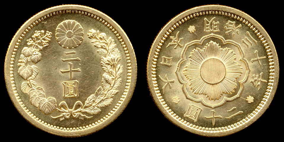 20yen-M30